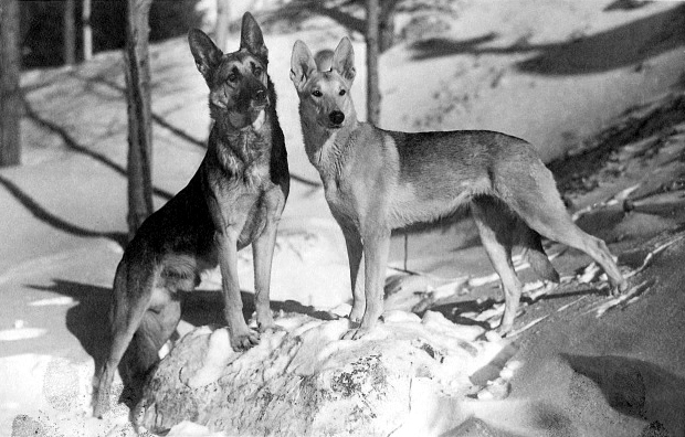 Promotional photograph for the film The Love Master, featuring Strongheart and Jule.